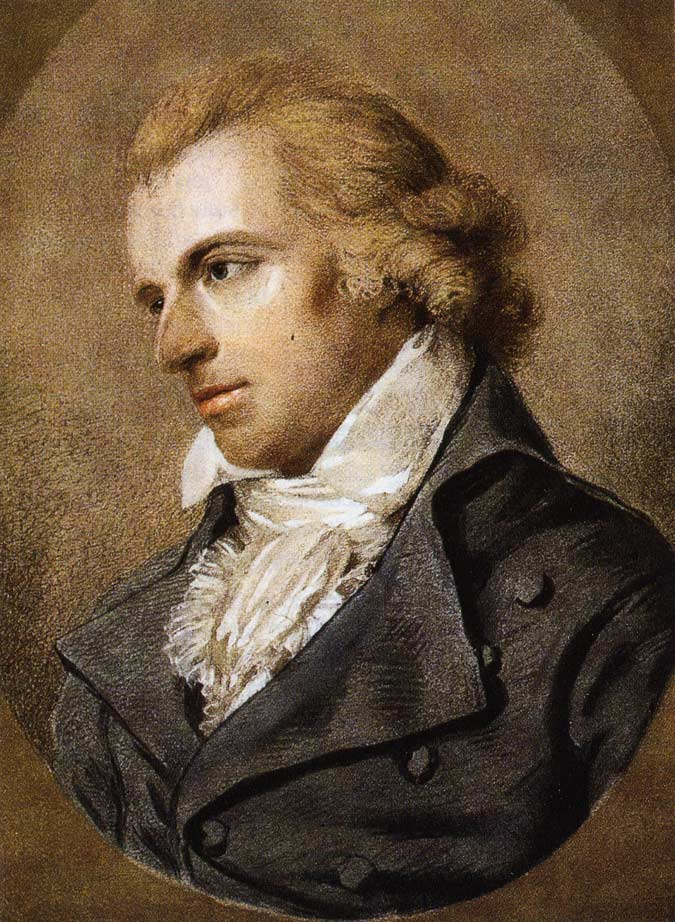 Friedrich Schiller (1759–1805), German poet, philosopher, historian, and playwright in 1793 or 1794